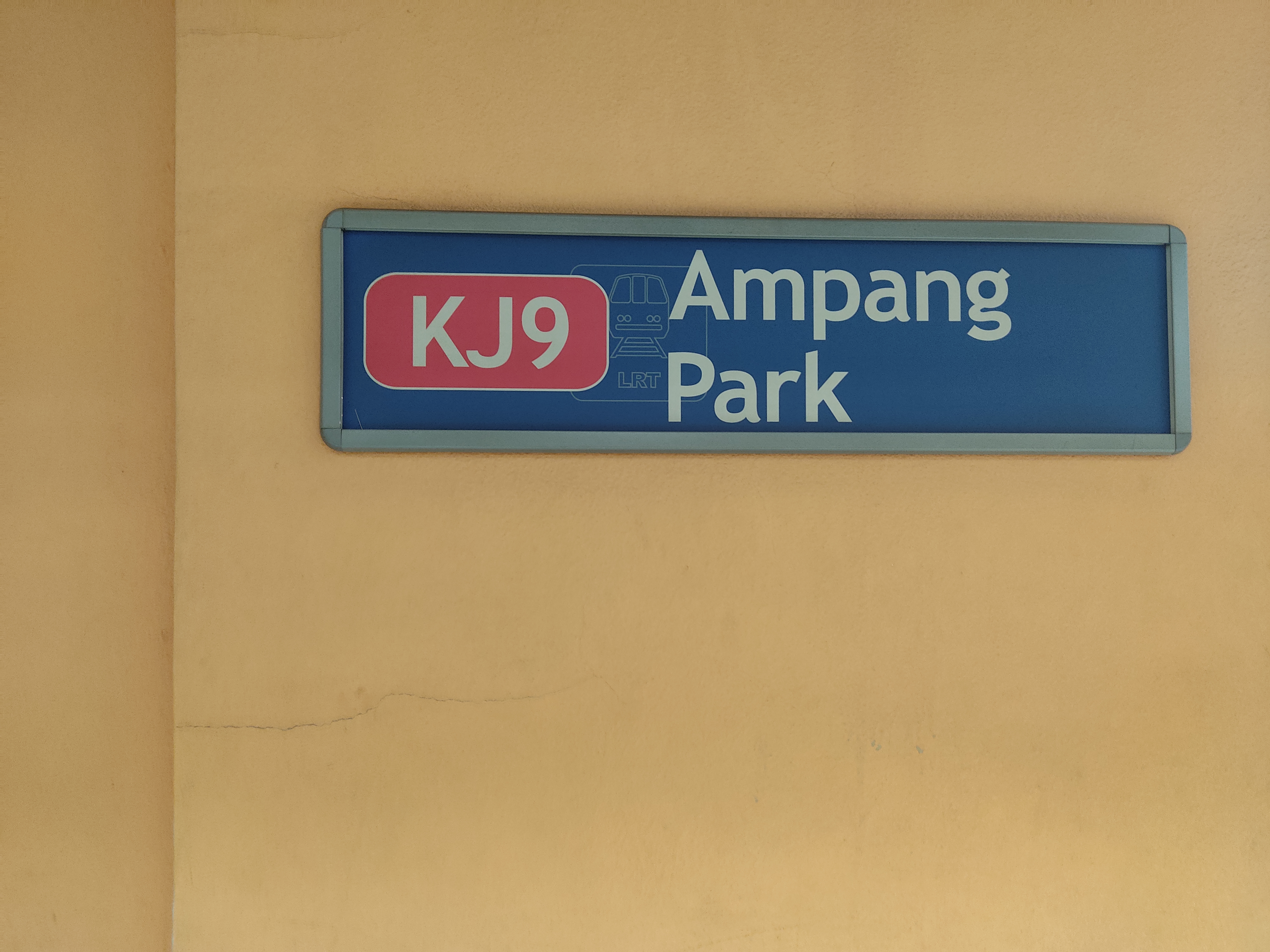 Ampang Park LRT